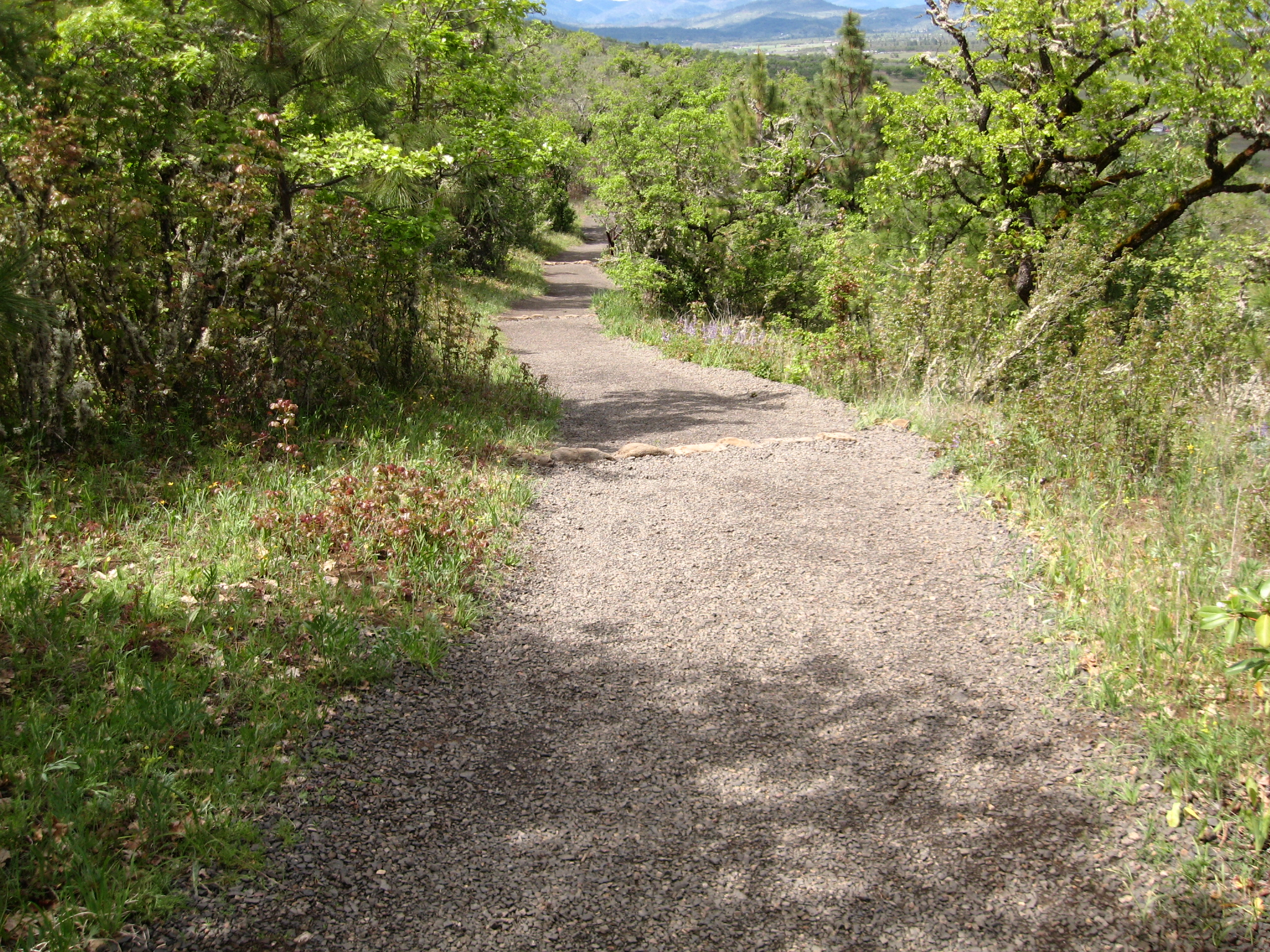 I took this picture myself on Upper Table Rock trail not far from the lower bench. The camera I was using will not keep the date set, but I took the picture maybe 18 hours ago.